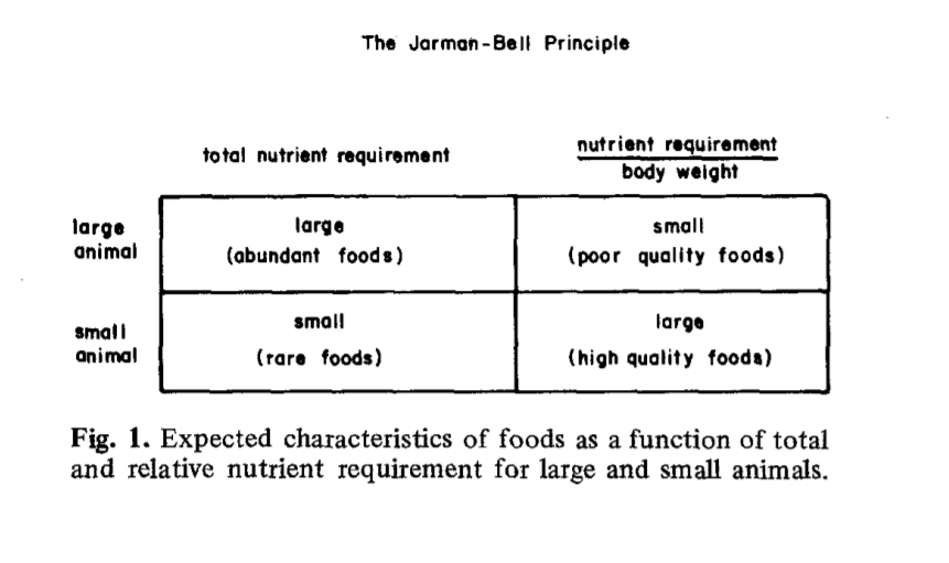 The Jarman-Bell Principle showing the relationship between food (quality and quantity) and animal size.